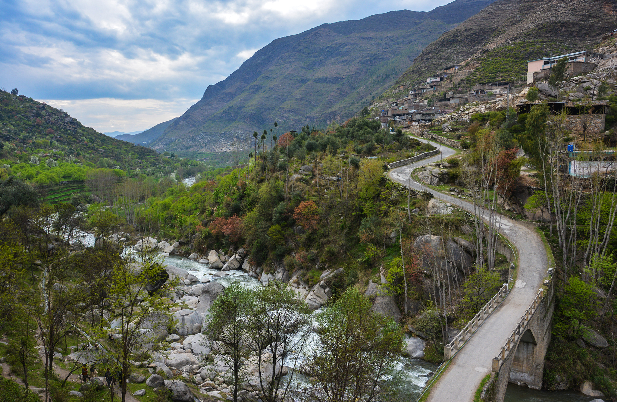 This view is of a branch road connecting a village named Mian Sheikh Baba to the main road of Malam Jabba Valley (a popular Ski Resort in Swat Pakistan).